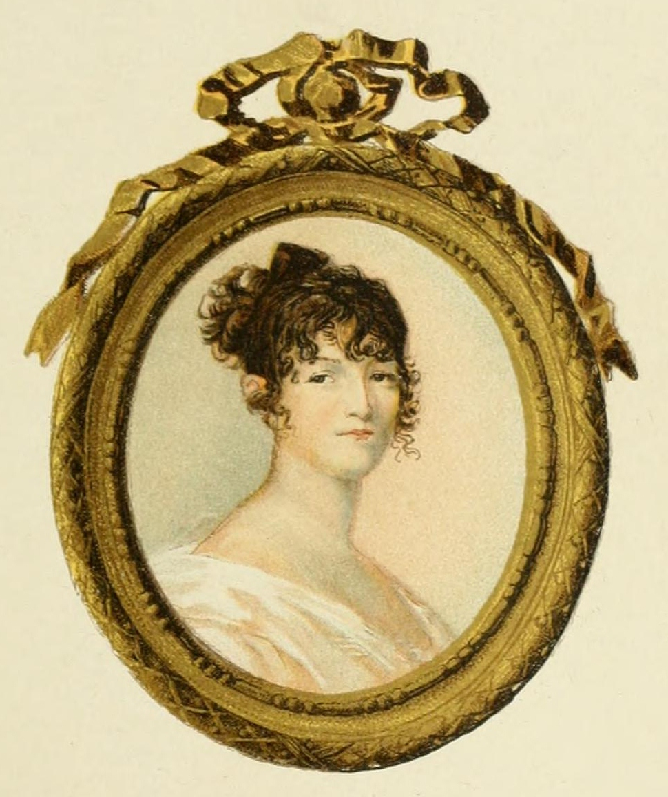 Nadezhda Osipovna Pushkina, Alexander Pushkin's mother